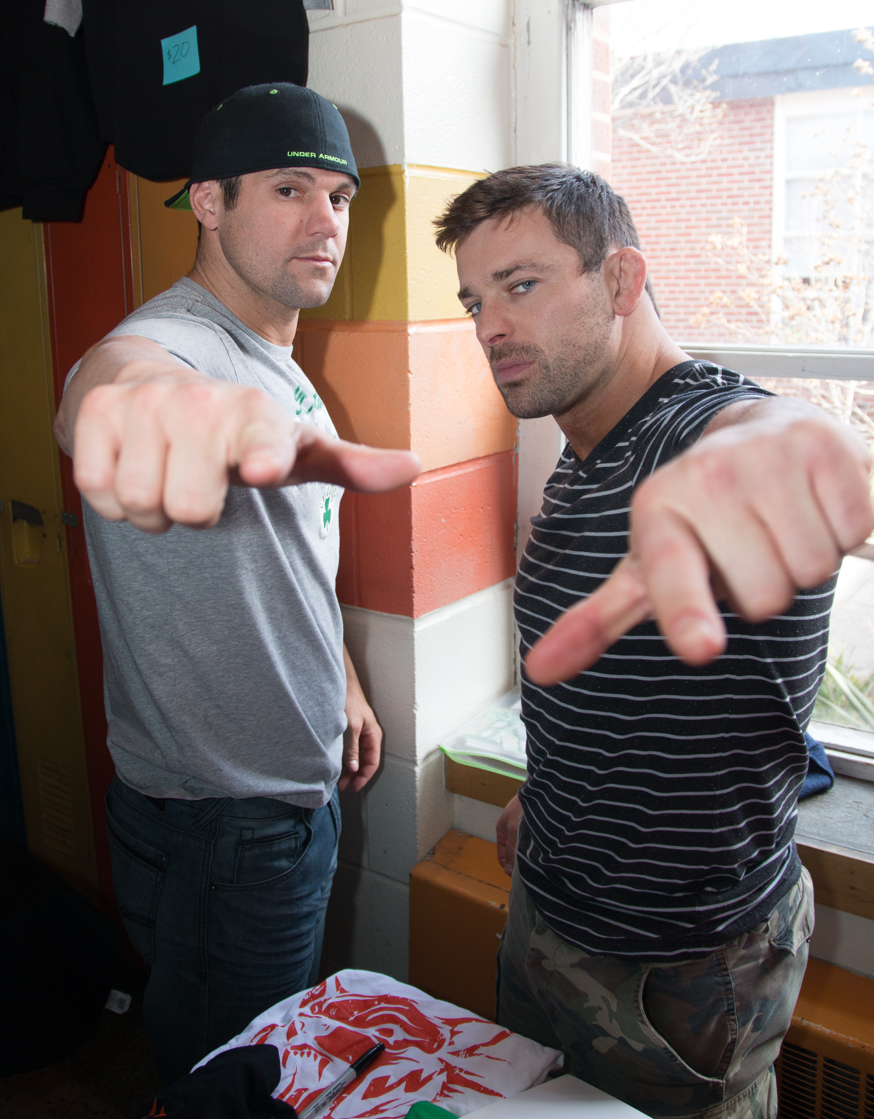 The American Wolves tag team - Eddie Edwards (left) and Davey Richards - posing an a Smash Wrestling show in Etobicoke, ON